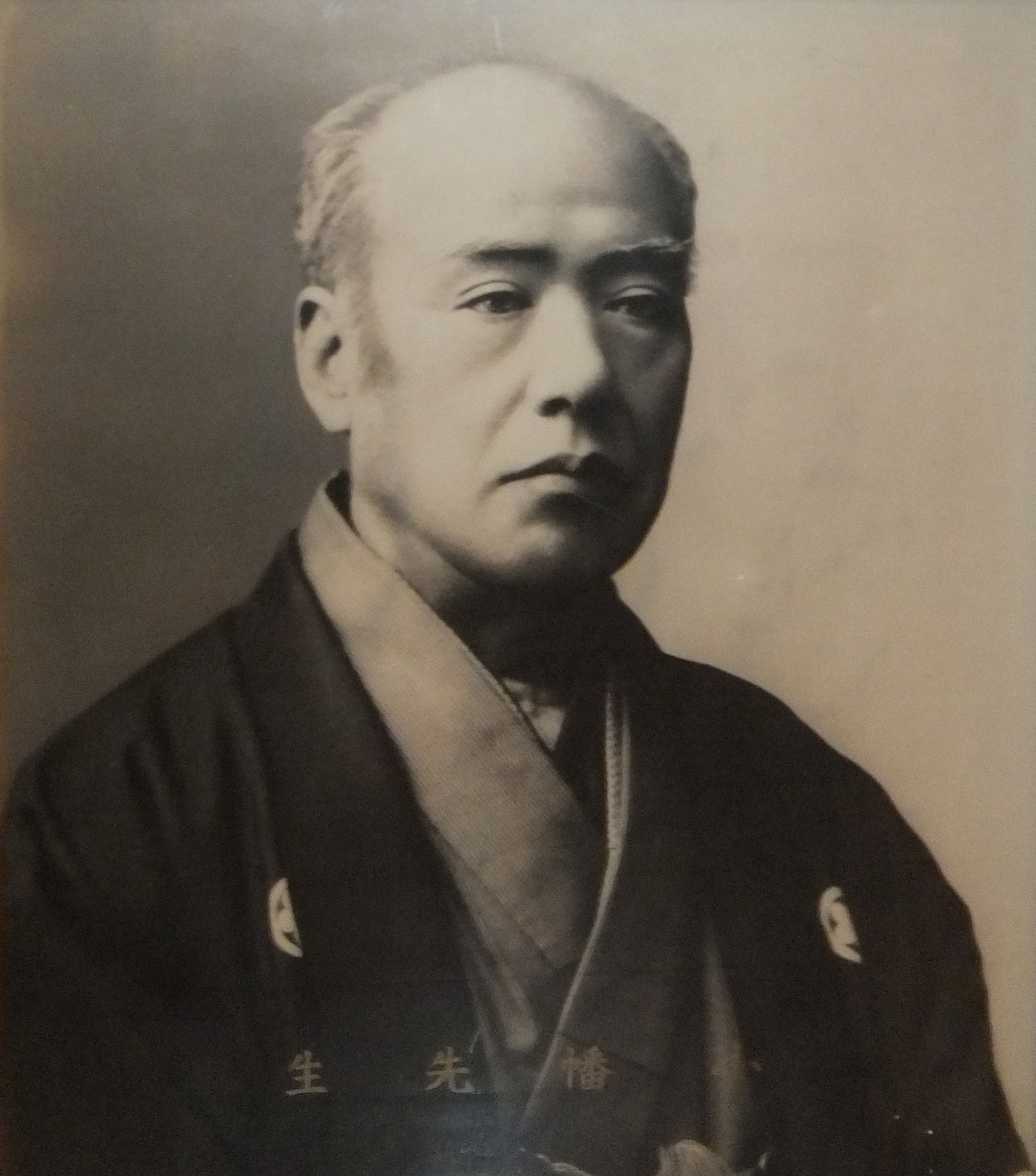 19th century photograph of Obata Tokujirō (1842-1905) a leading proponent of modernization in Meiji Japan. President of Keiō Gijuku University (1890-97).